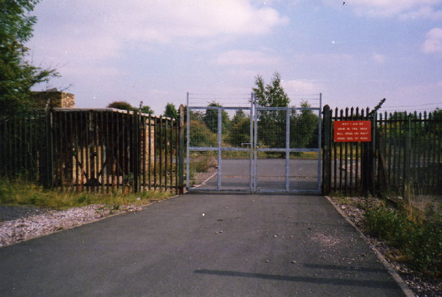 Swynnerton Training Camp. Back entrance to Swynnerton army training camp. The site was a massive ordnance factory during World War Two. In the 1980s the base was used by nuclear weapons convoys for overnight stops (using this gate), and was also the scene of a controversial exercise when a demonstration of how to clean up nuclear contamination apparently used real nuclear contaminated material.